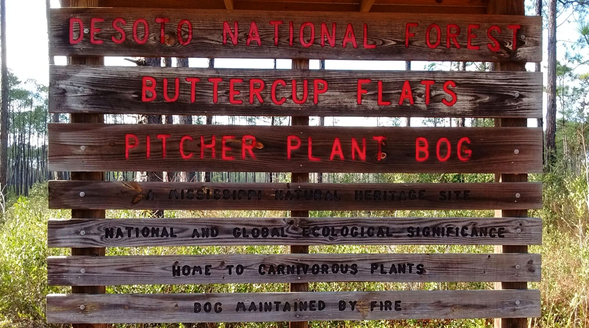 Sign designating location of Buttercup Flats on De Soto National Forest in Mississippi